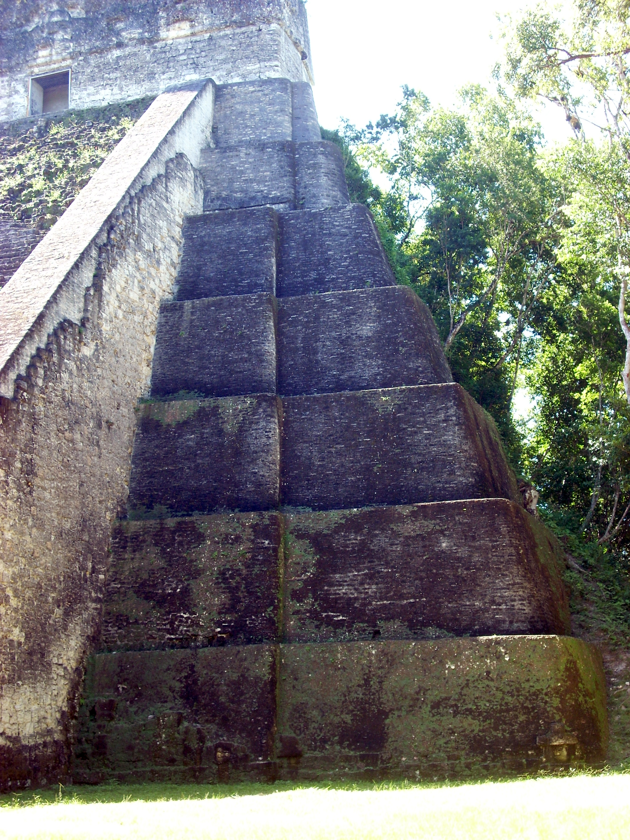 Northwest corner of Temple V at Tikal, showing the seven stepped levels with rounded, inset corners.